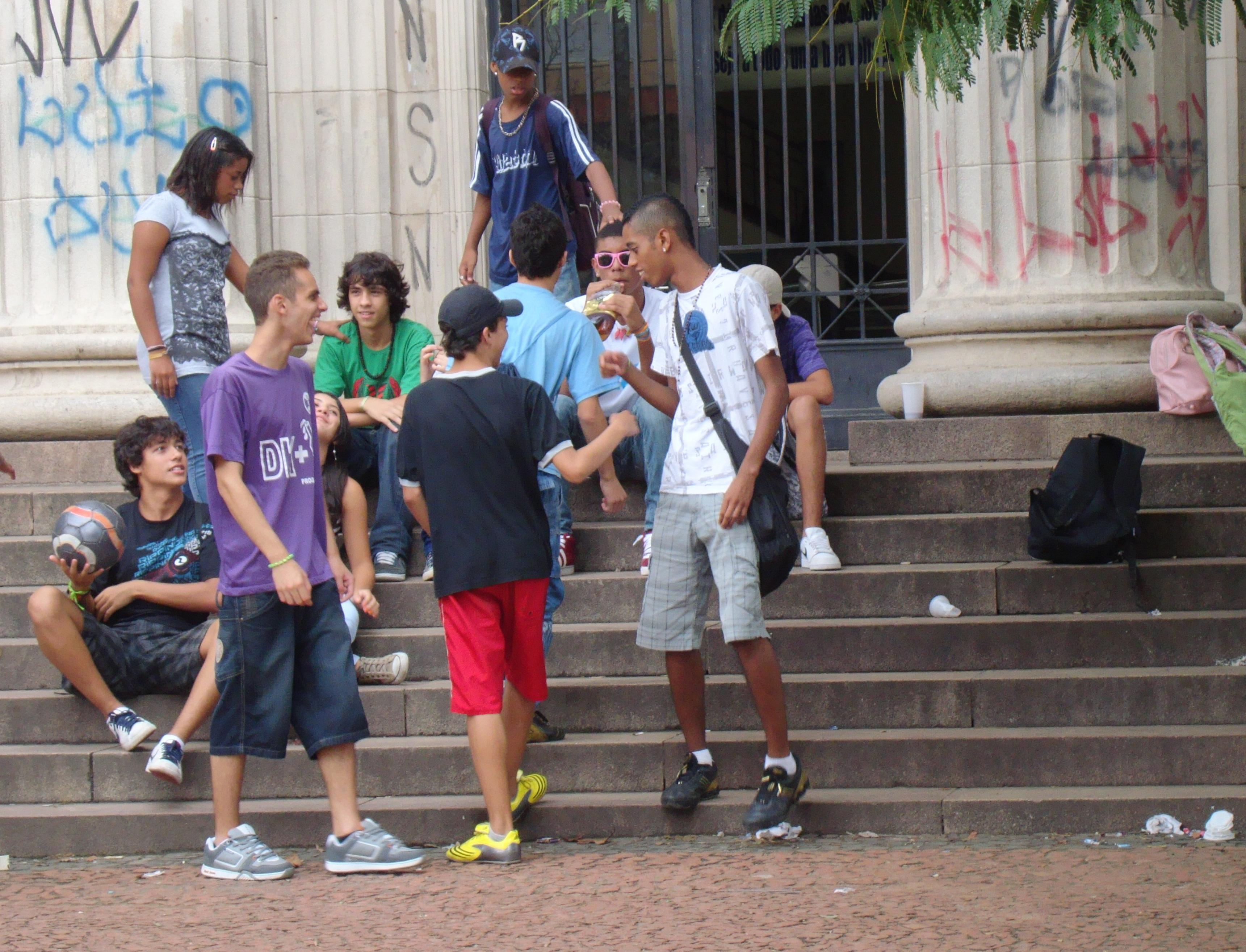 Young people in Porto Alegre, Rio Grande do Sul, Brazil